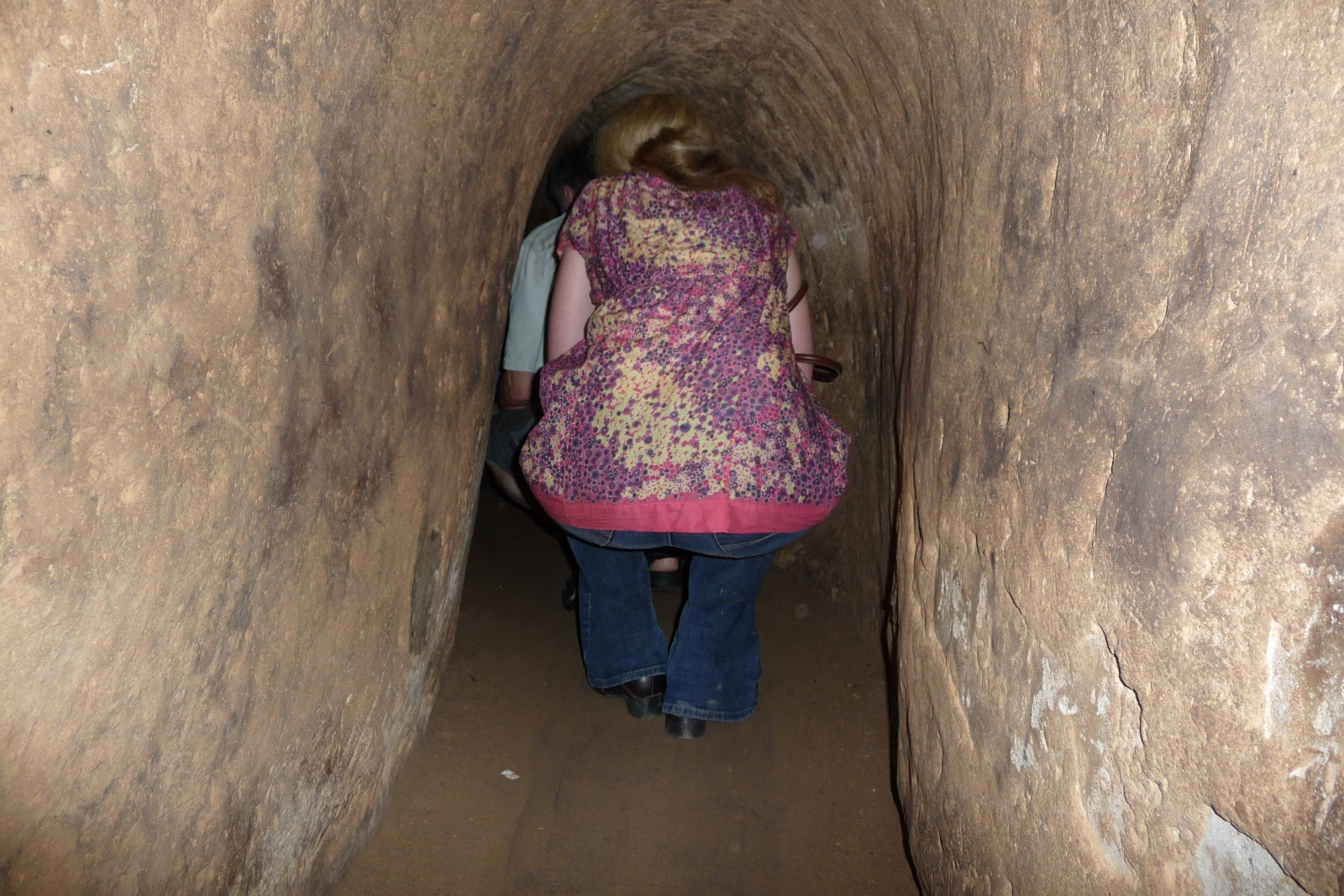 Tourists entering tunnel system. Author Niels Aage Jensen